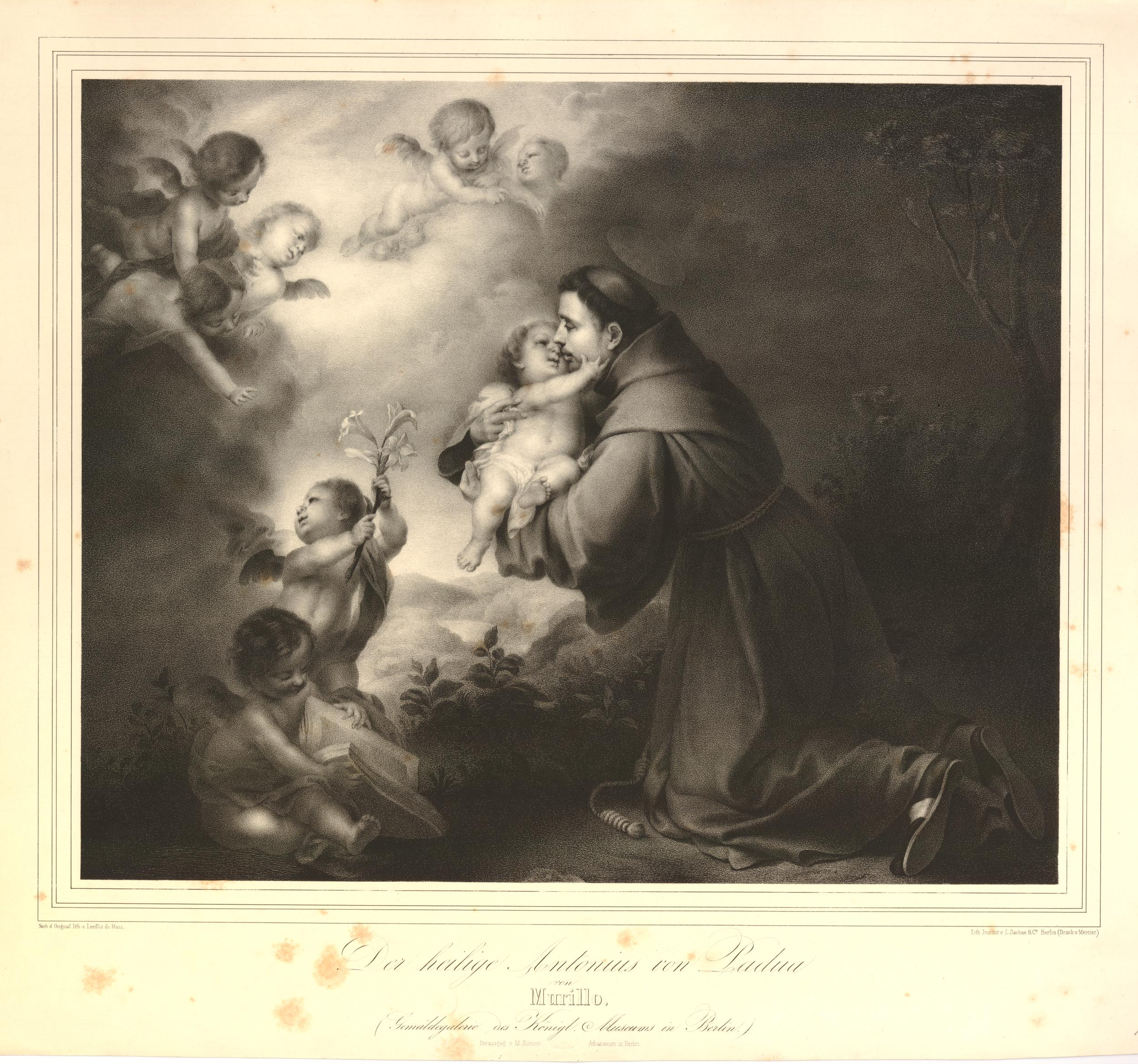 The vision of St Anthony of Padua; the latter is kneeling in the desert in profile to left holding the Christ child in his arms and kissing it; two putti, one with a lily, the other holding a book to left; five more putto hovering above; after Murillo. c.1860 Lithograph